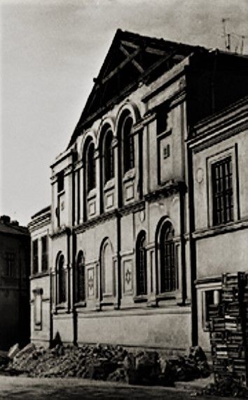 Malbim Synagogue, named after Rabbi Meir Leibish Malbim (1809-1879), on 4 Strada Bravilor, in Bucharest, January 1941